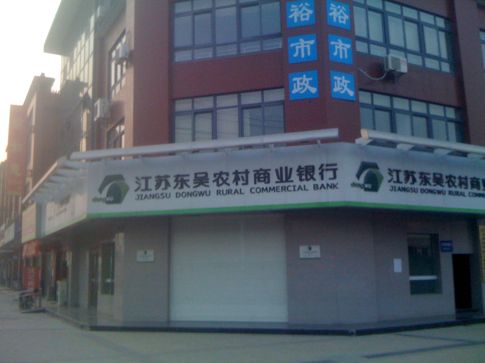 Jiangsu Dongwu Rural Commercial Bank Of China